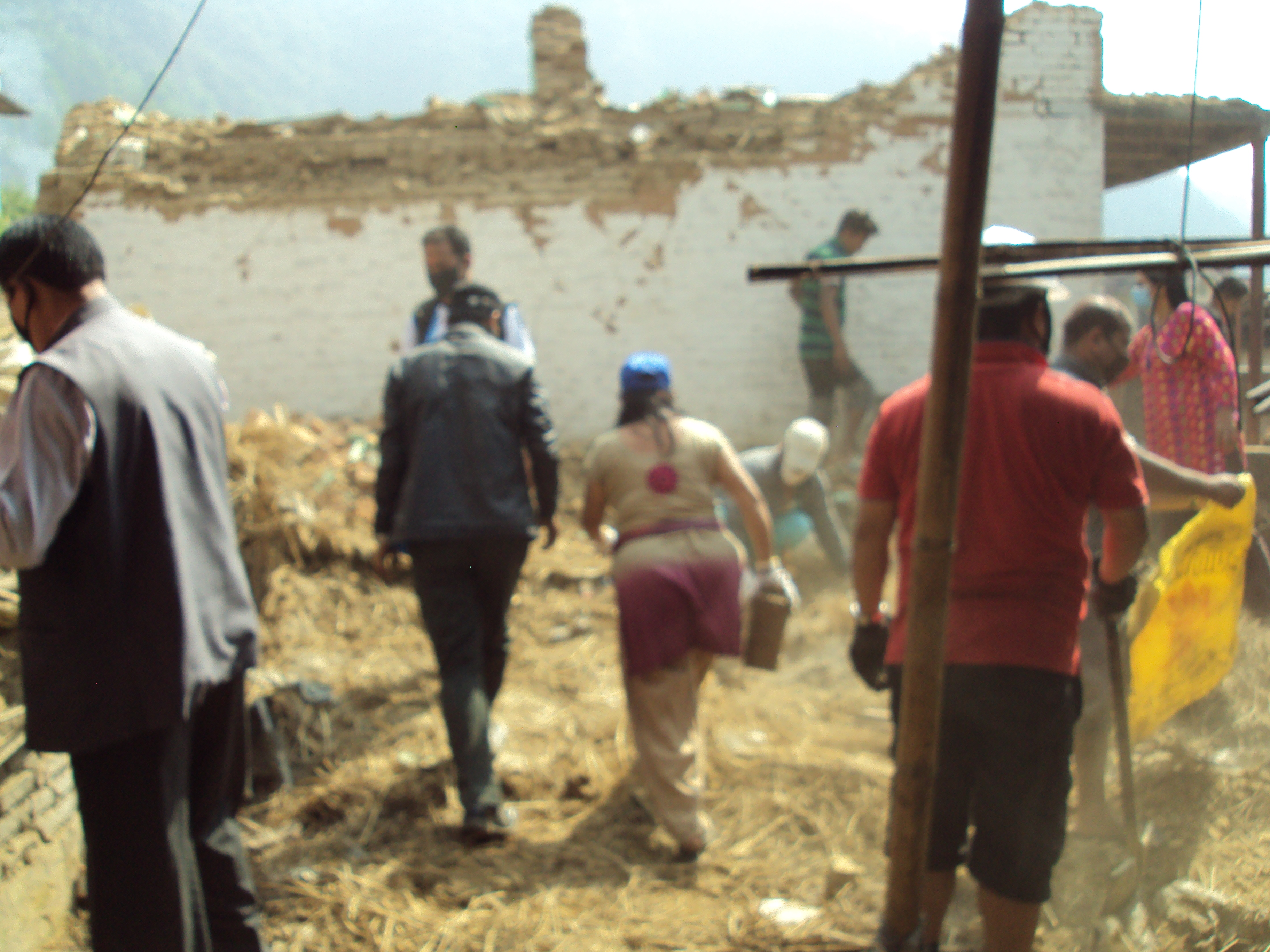 Volunteers helping the earthquake victims